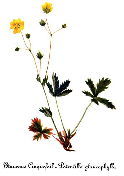 Watercolor painting of Potentilla_diversifolia.